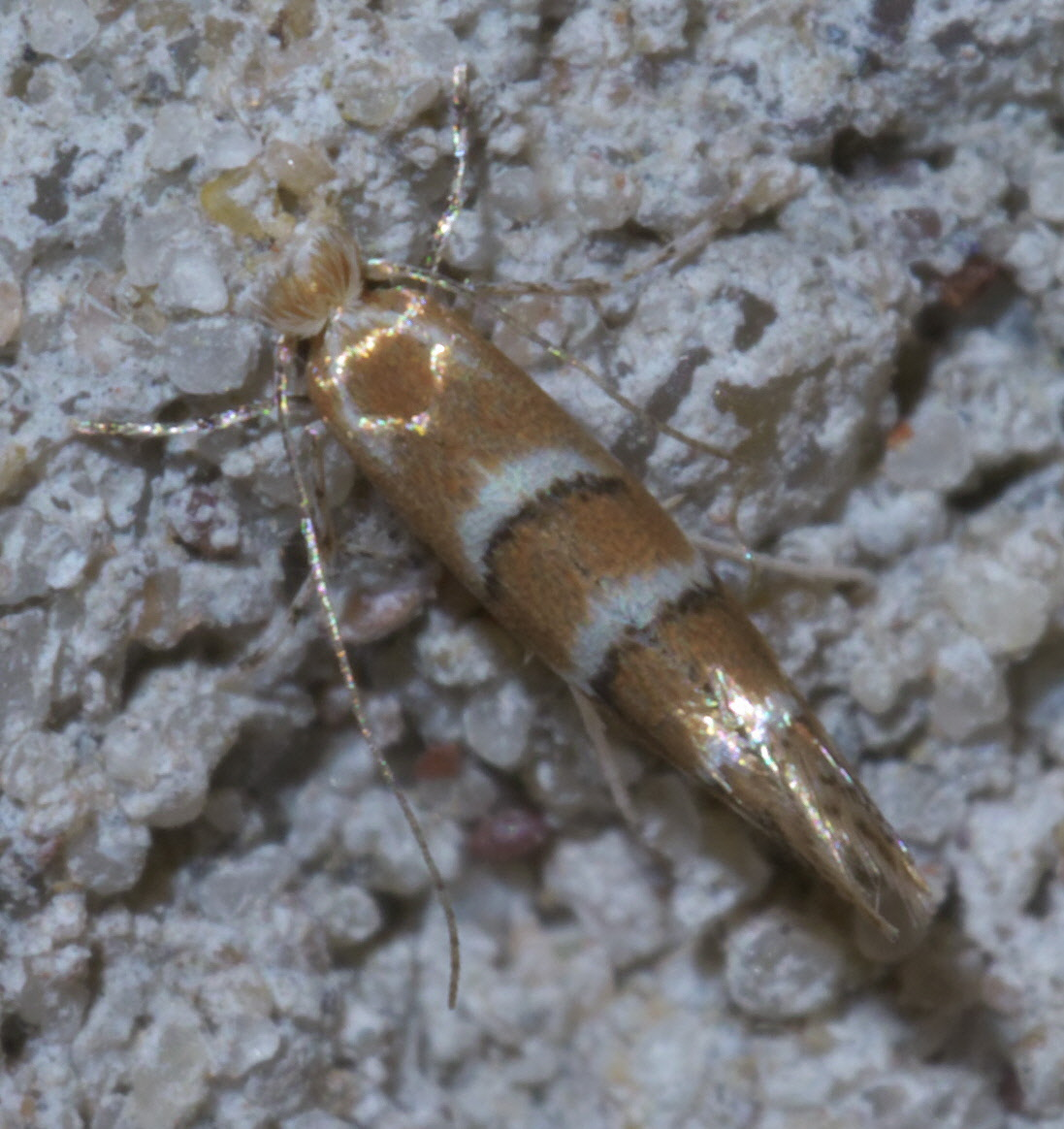 Cameraria caryaefoliella, pecan leafminer, Pecan Leaf Miner (It might be another Cameraria), Size: 3.5 mm, ID Confidence: 82